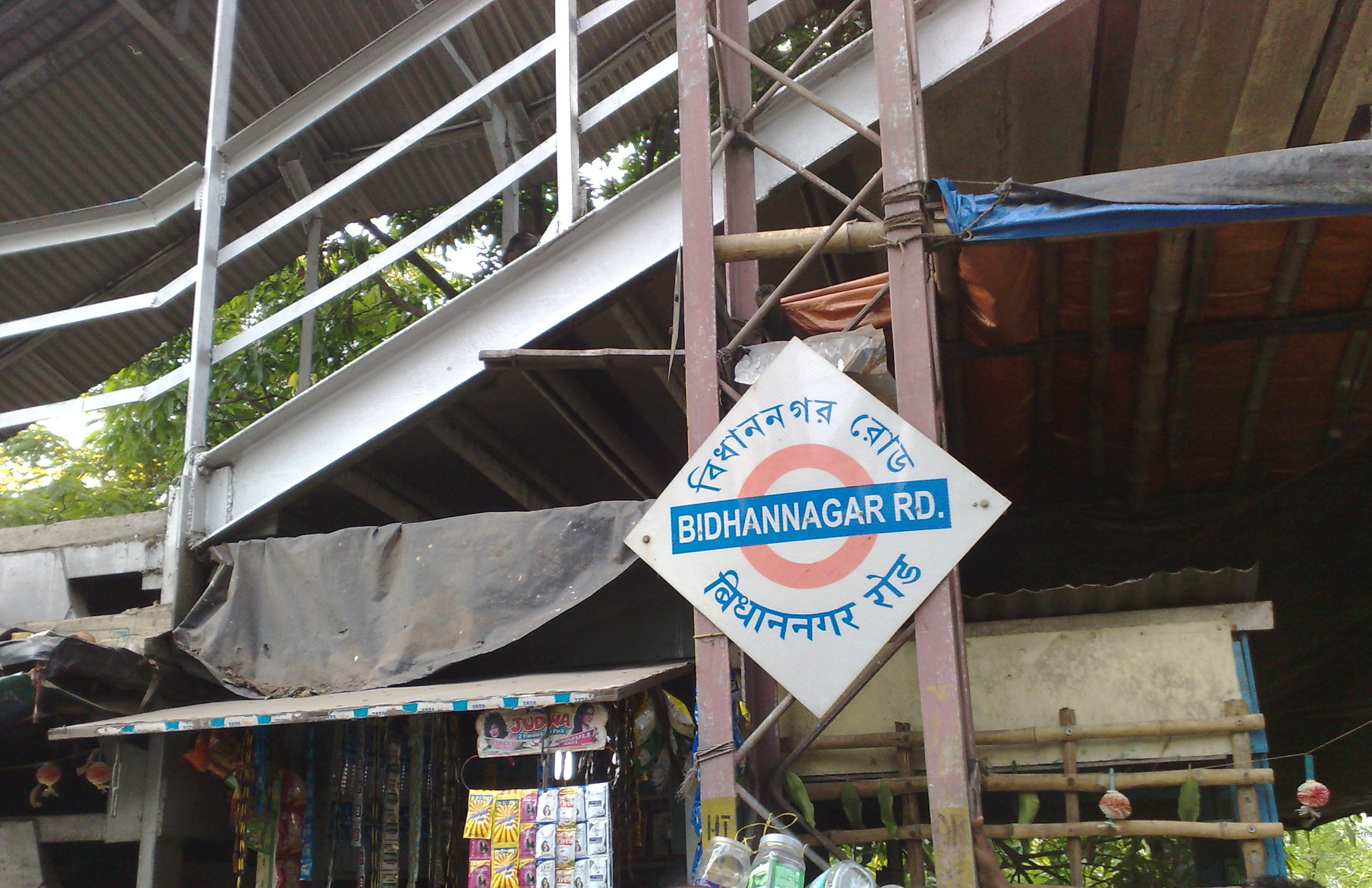 Bidhannagar station